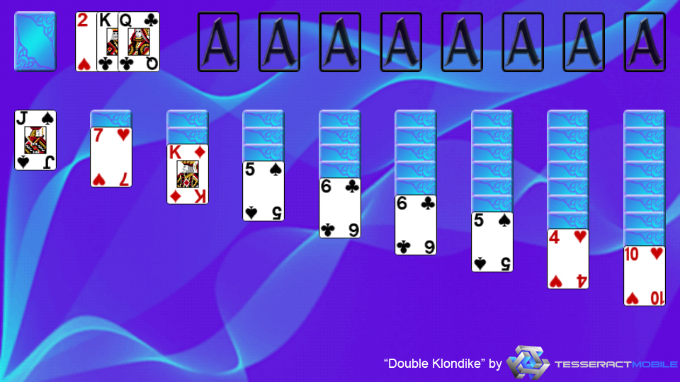 This image is a screenshot of the solitaire game "Double Klondike". More information about this game or this photo can be found on this website